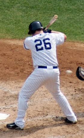 Austin Kearns